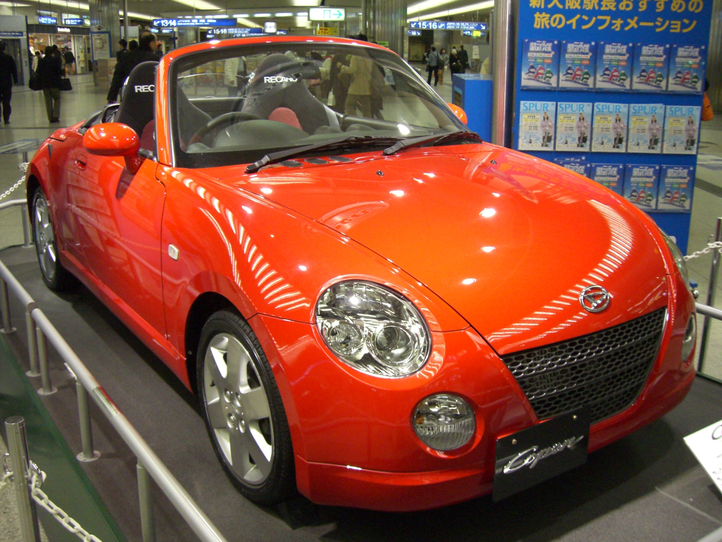 Daihatsu Copen at Shin-Osaka sta. 2005/12